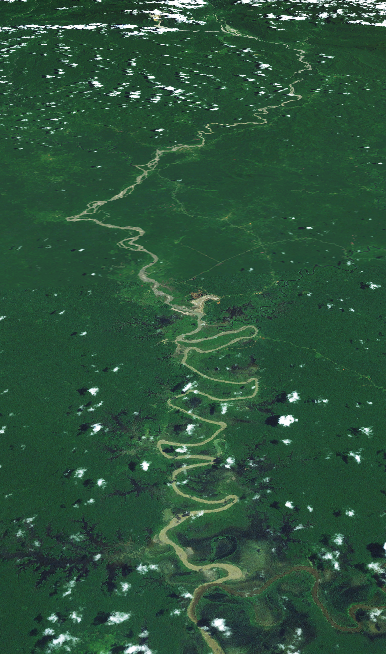 NASA World Wind image of Ok Tedi River